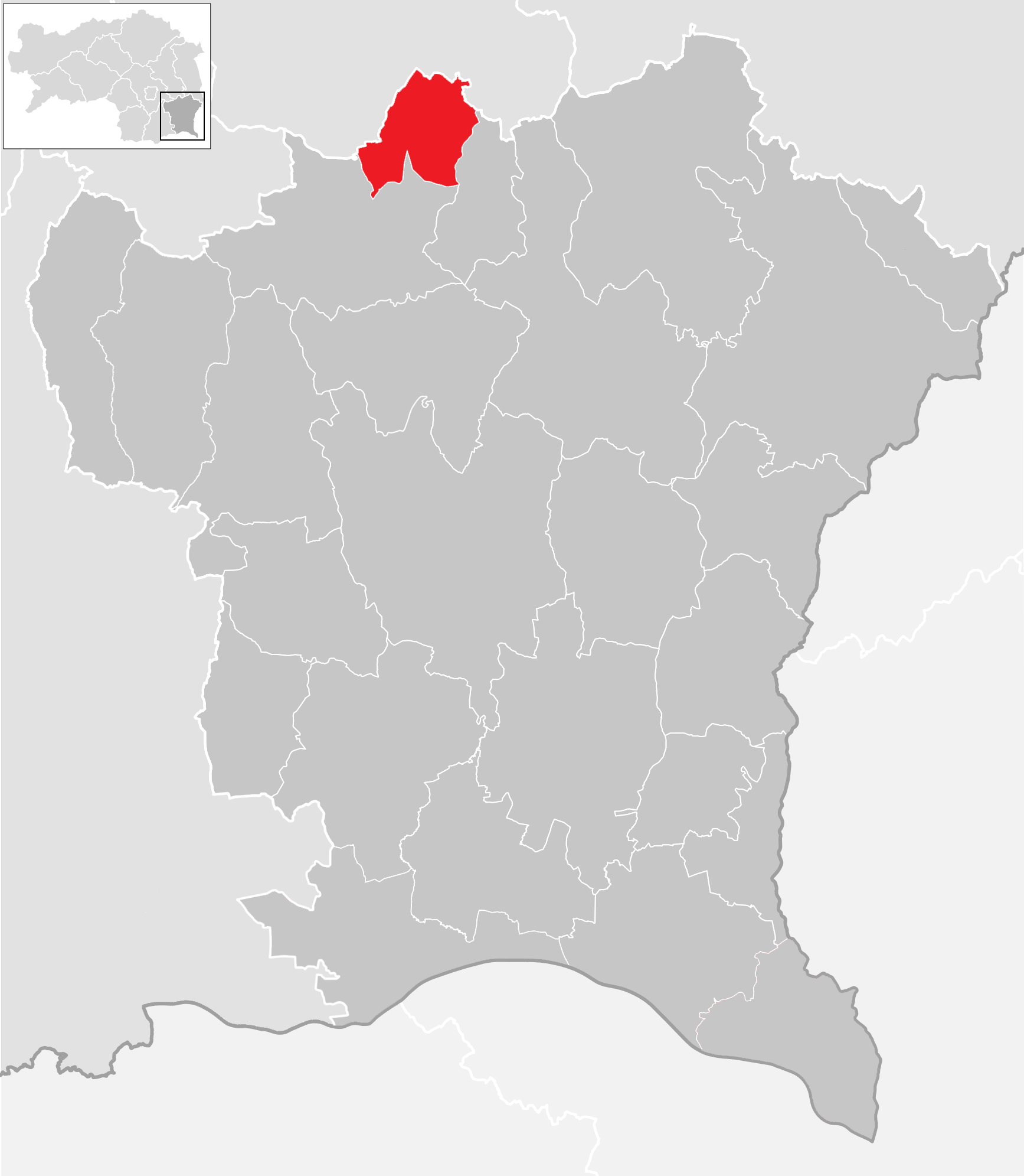 district Südoststeiermark